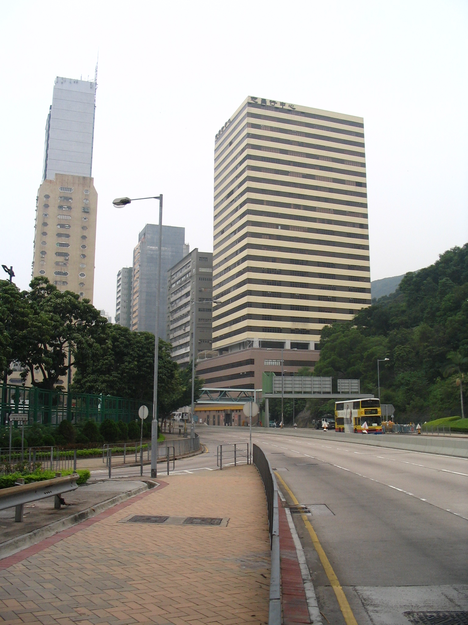 Photo of Wong Chuk Hang Road